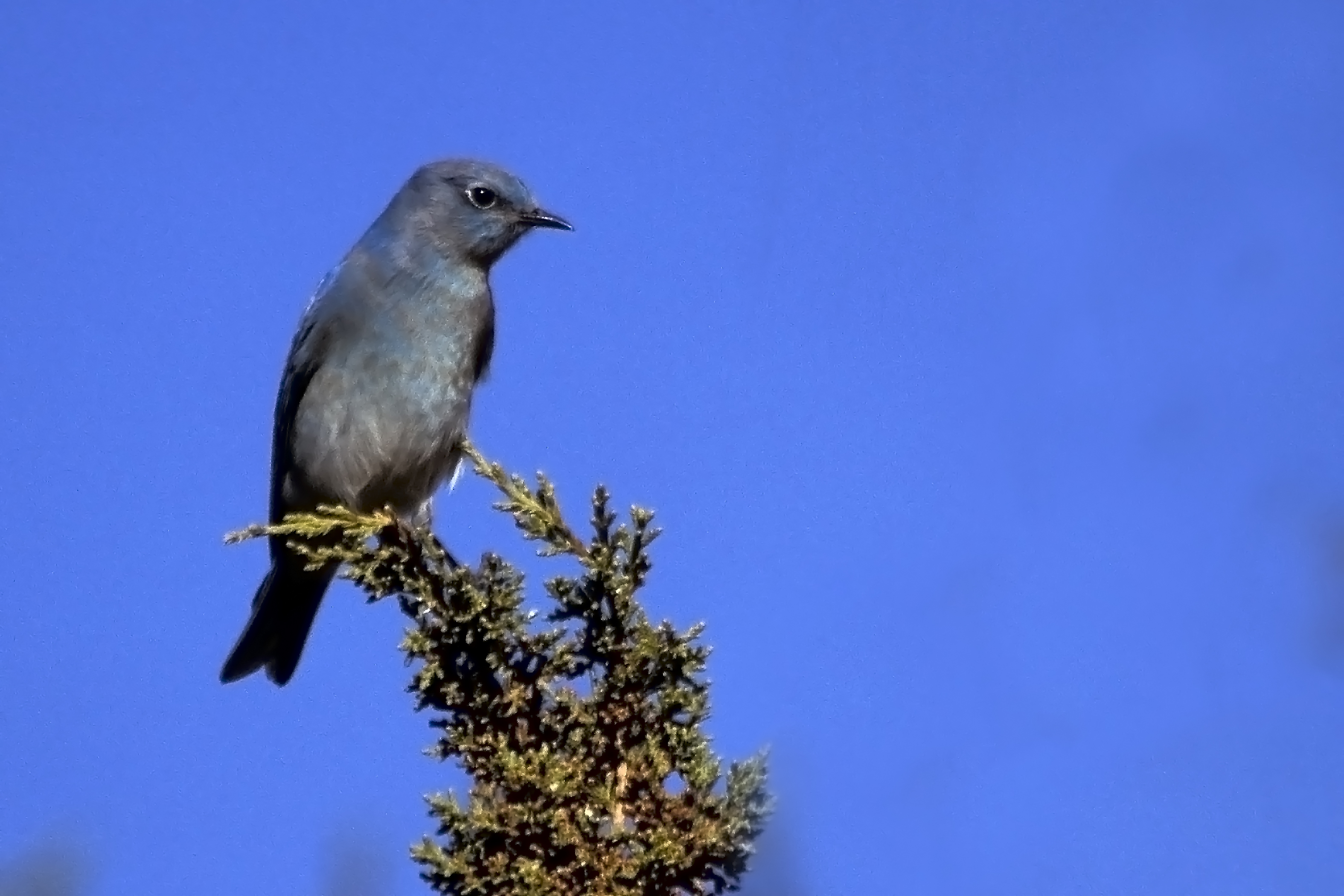 Large flocks of these birds fly together in the summer at Mesa Verde in Colorado.